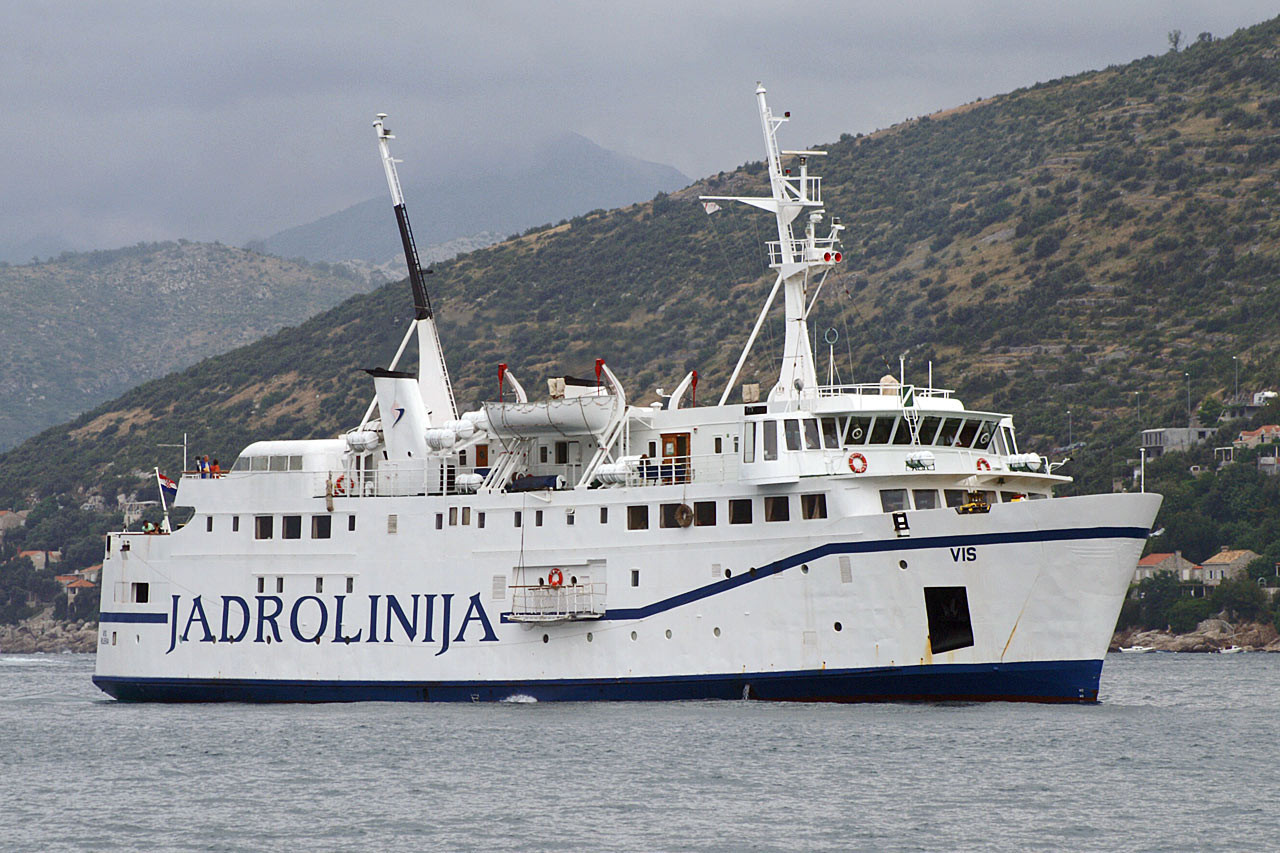 The ferry Vis of Jadrolinija at Dubrovnik